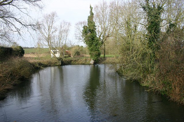 Moat of Westhorpe Hall In 1991, 187 pieces of architectural terracotta were found during desilting work in the moat. The original Hall no longer exists, but has been replaced by a more modern building which is currently a home for old people.